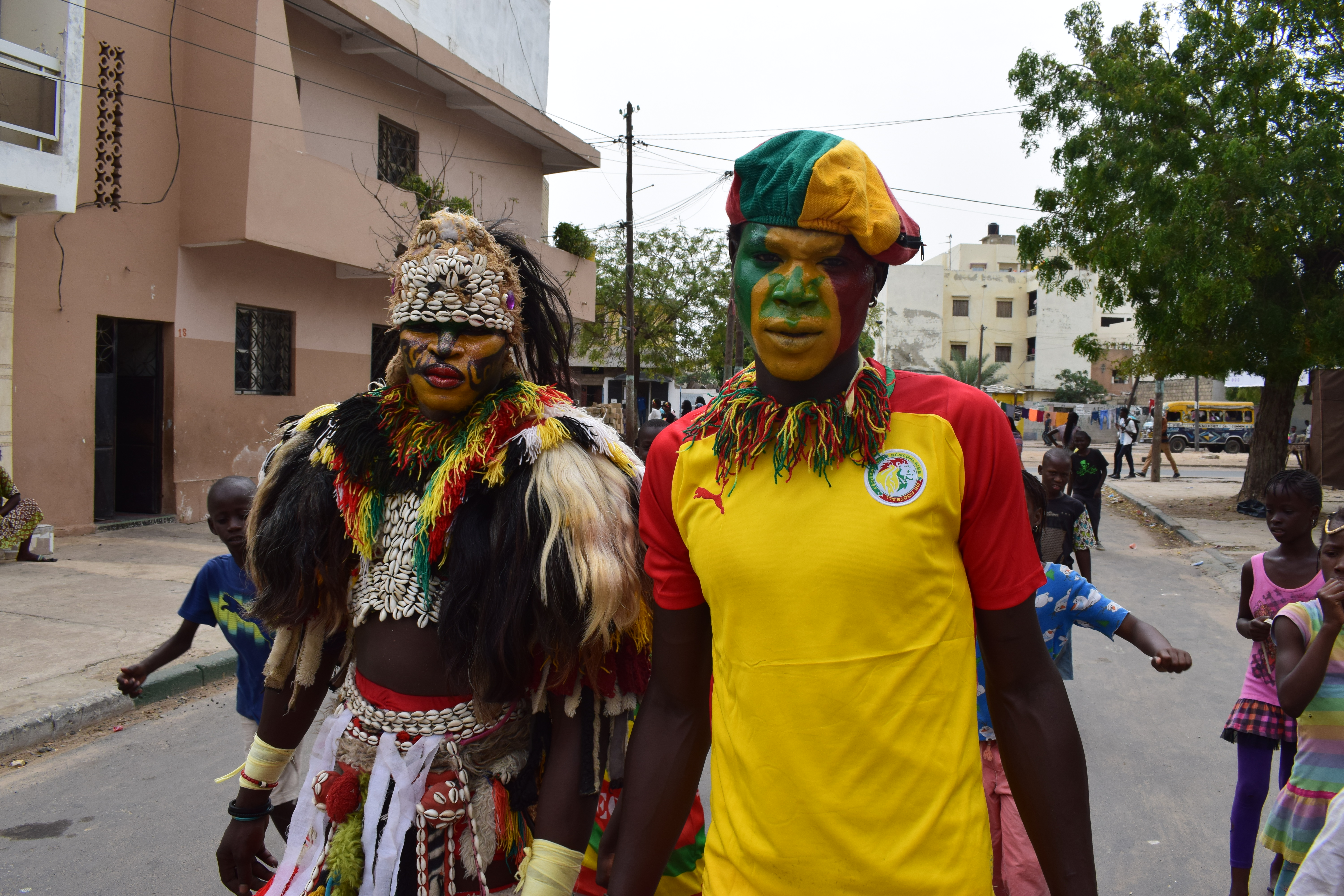 Disguise by passion of football This is an image with the theme "Play" from: Senegal